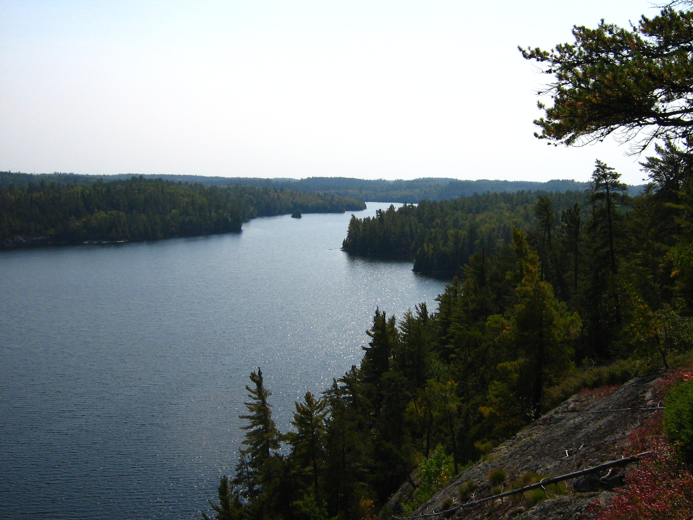 Rabbit Lake's southern narrows.